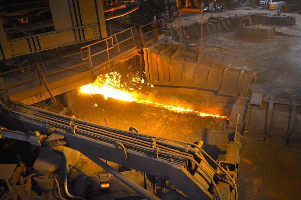 Casthouse, or casting hall of a a blast furnace in Whyalla Steelworks, Australia.